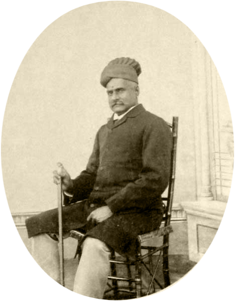 A photograph of Raja Ravi Varma by Bhawani Ram, 1890's Converted to grayscale then sepia to reduce colour distortions. Oval masked to create transparent background suitable for the infobox.